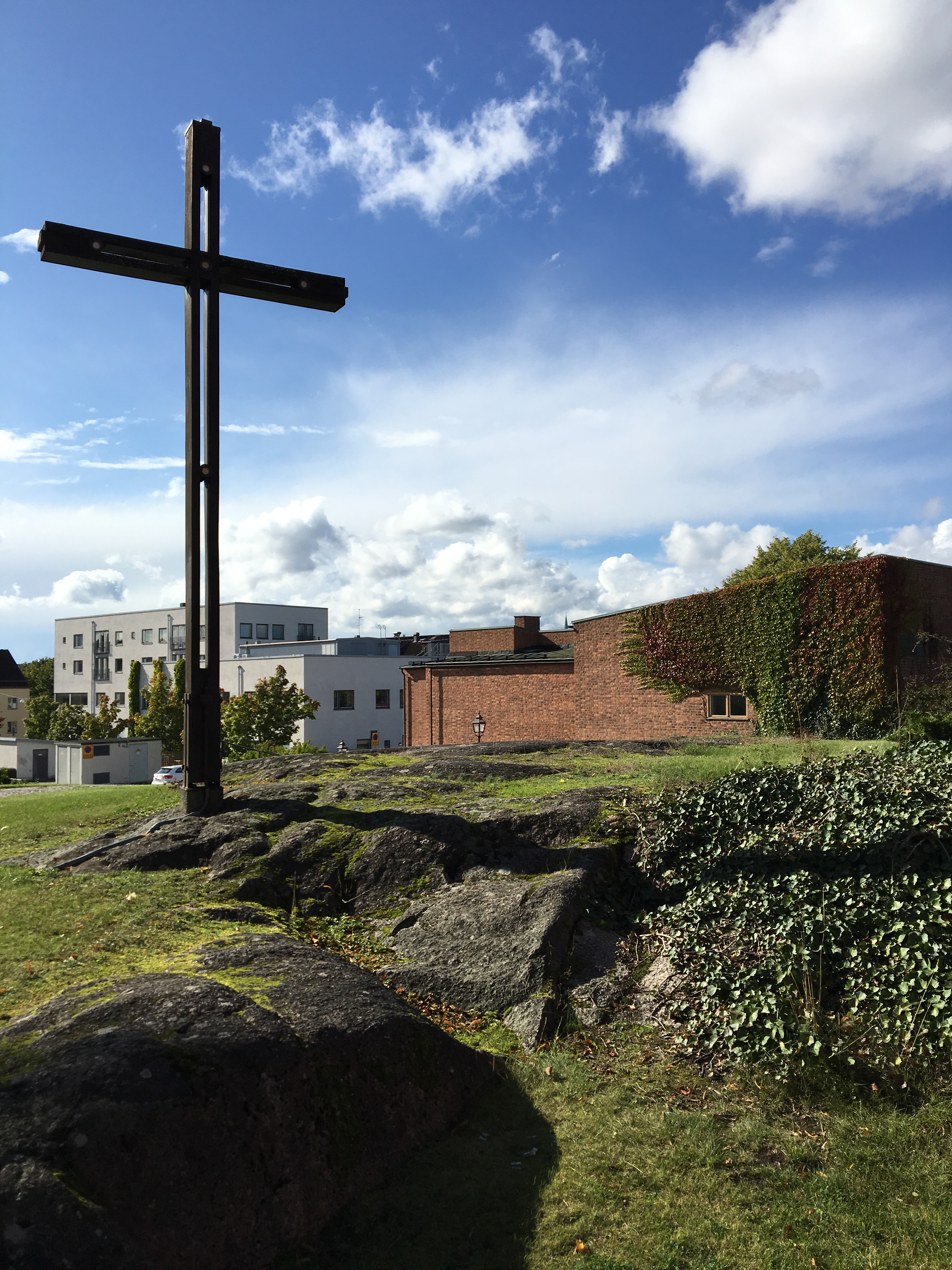 View from the Tannefors church.